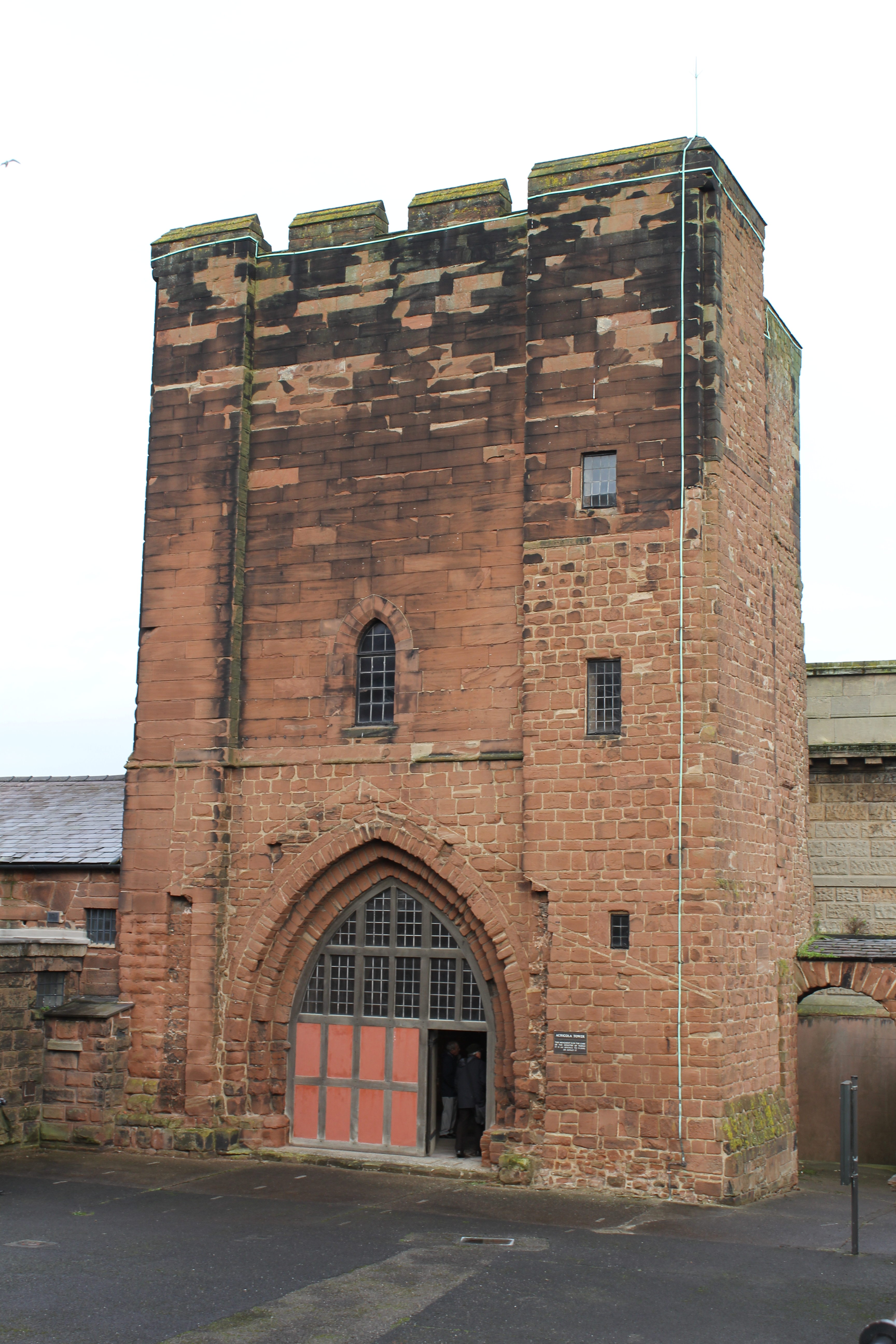 CBA North-west Autumn meeting: tour round Chester Castle. The exterior of the Agricola Tower.